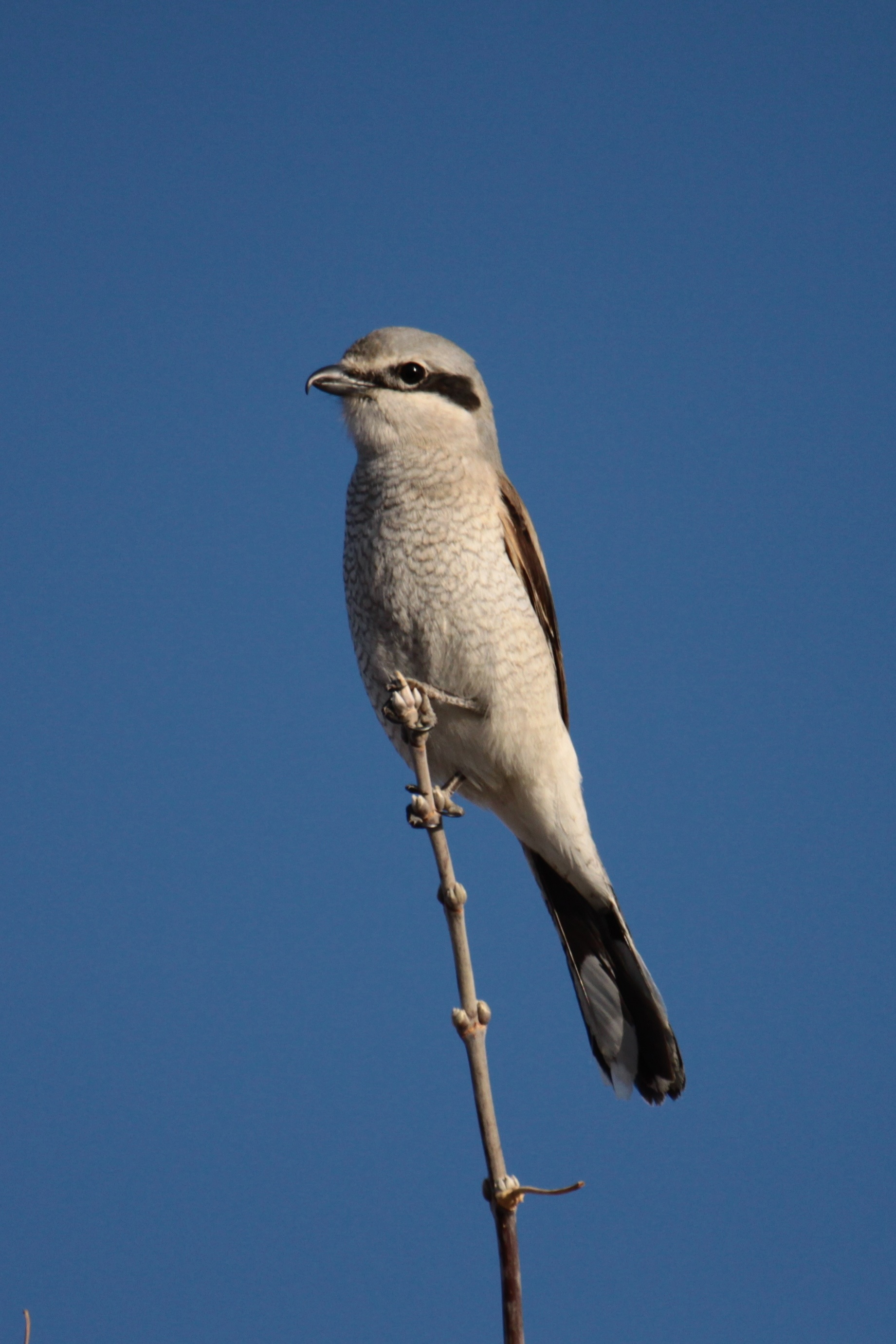 Northern Shrike